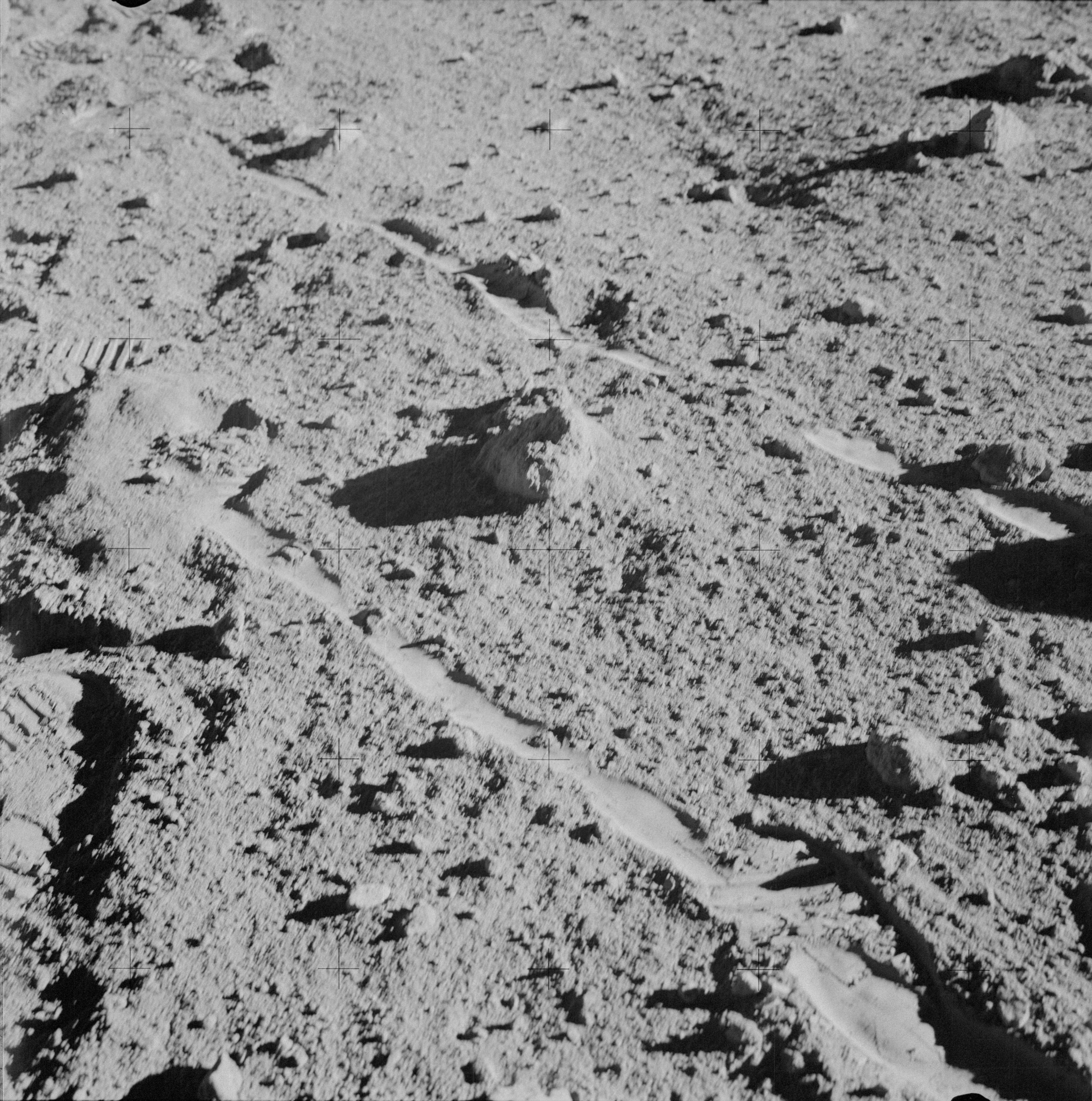 The two moon-exploring crew men of the Apollo 14 lunar landing mission, photographed and collected the large rock pictured just above the exact center of this picture. The rock, casting a shadow off to the left, is lunar sample number 14321, referred to as a basketball-sized rock by newsmen and nicknamed "Big Bertha" by principal investigators. It lies between the wheel tracks made by the modular equipment transporter (MET) or rickshaw-type portable workbench. A few prints of the lunar overshoes of the crew members are at the left. This photo was made near the boulder field near the rim of Cone Crater.